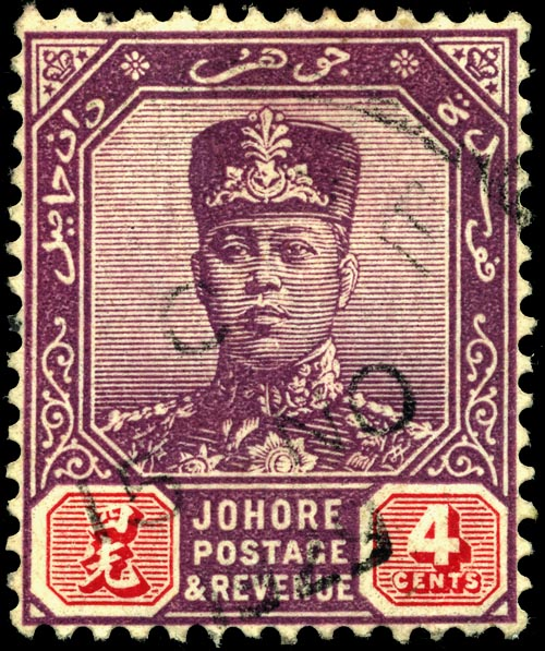 Johor 4c stamp of 1921